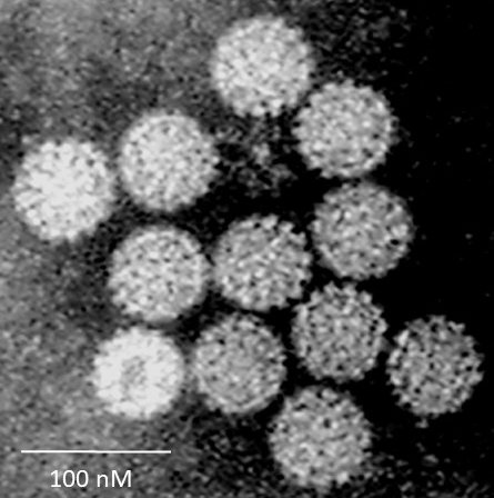 Pathology: EM: Papilloma Virus (HPV).